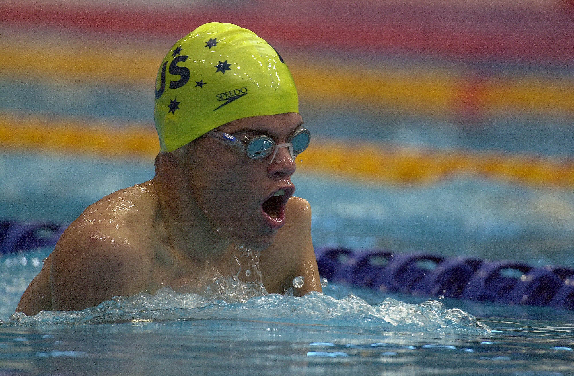 Action shot of Australian swimmer Mark Altmann during the 200m medley SM7 event, 2000 Sydney Paralympic Games, Day 02